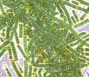 Cyanobacteria, NOAA